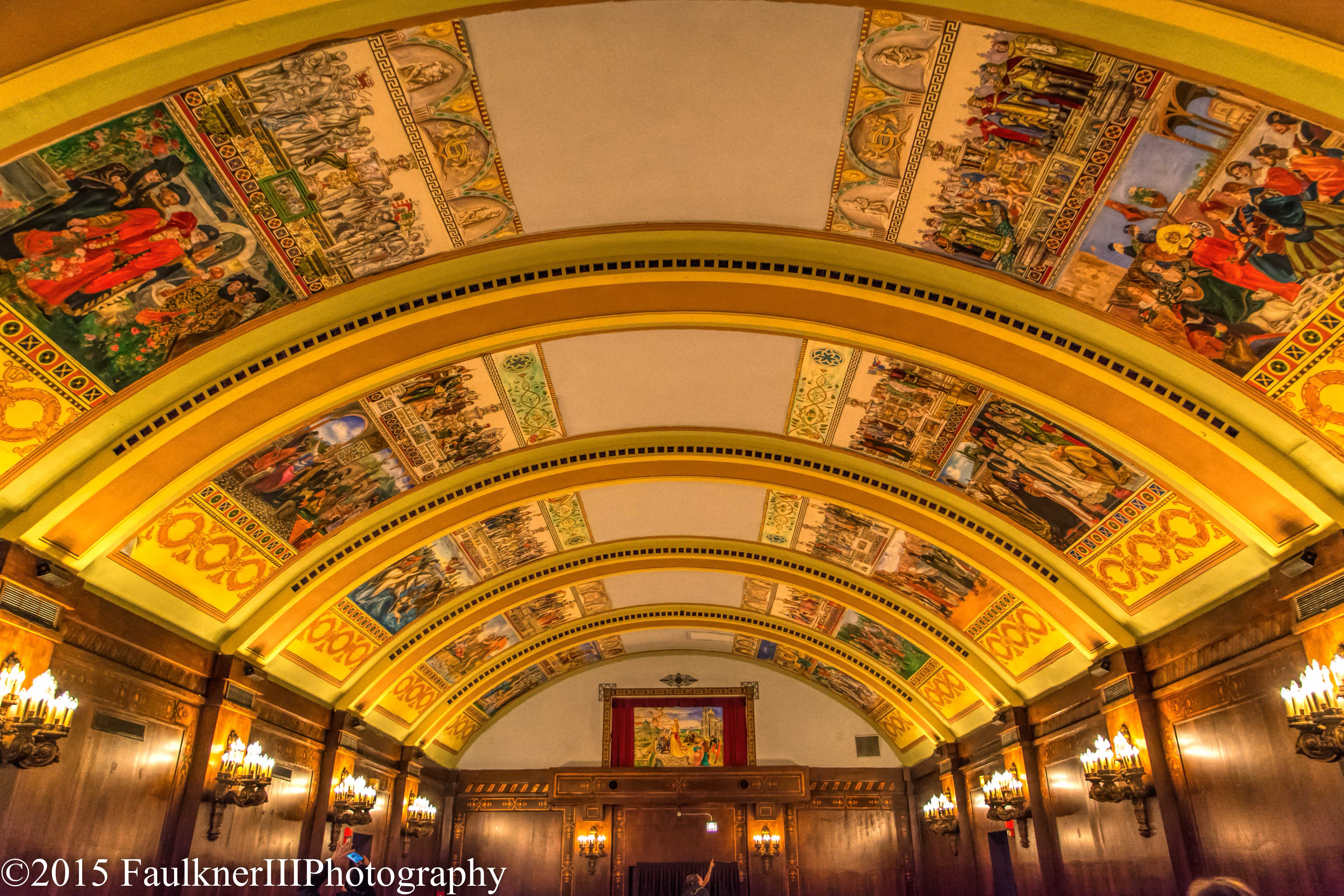 Florentine Room at Blackstone Hotel in Chicago